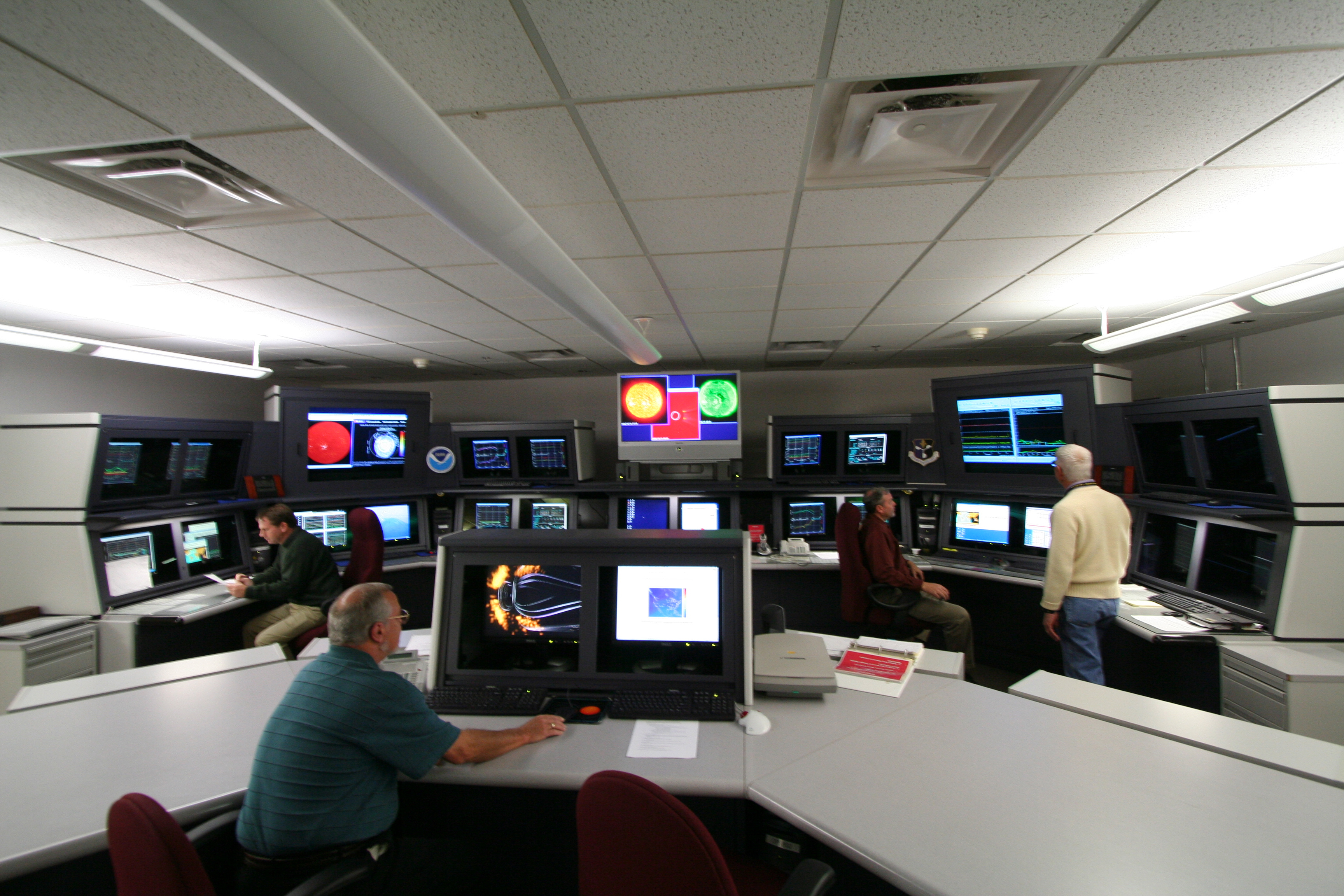 Forecasters in front of lots of screens inside the Space Weather Forecast Office of NOAA's Space Weather Prediction Center (SWPC) in Boulder, Colorado. Scientists keep an eye on the Sun. The GOES satellites send images that show activity on the Sun's surface that means a flare or eruption may be about to happen.